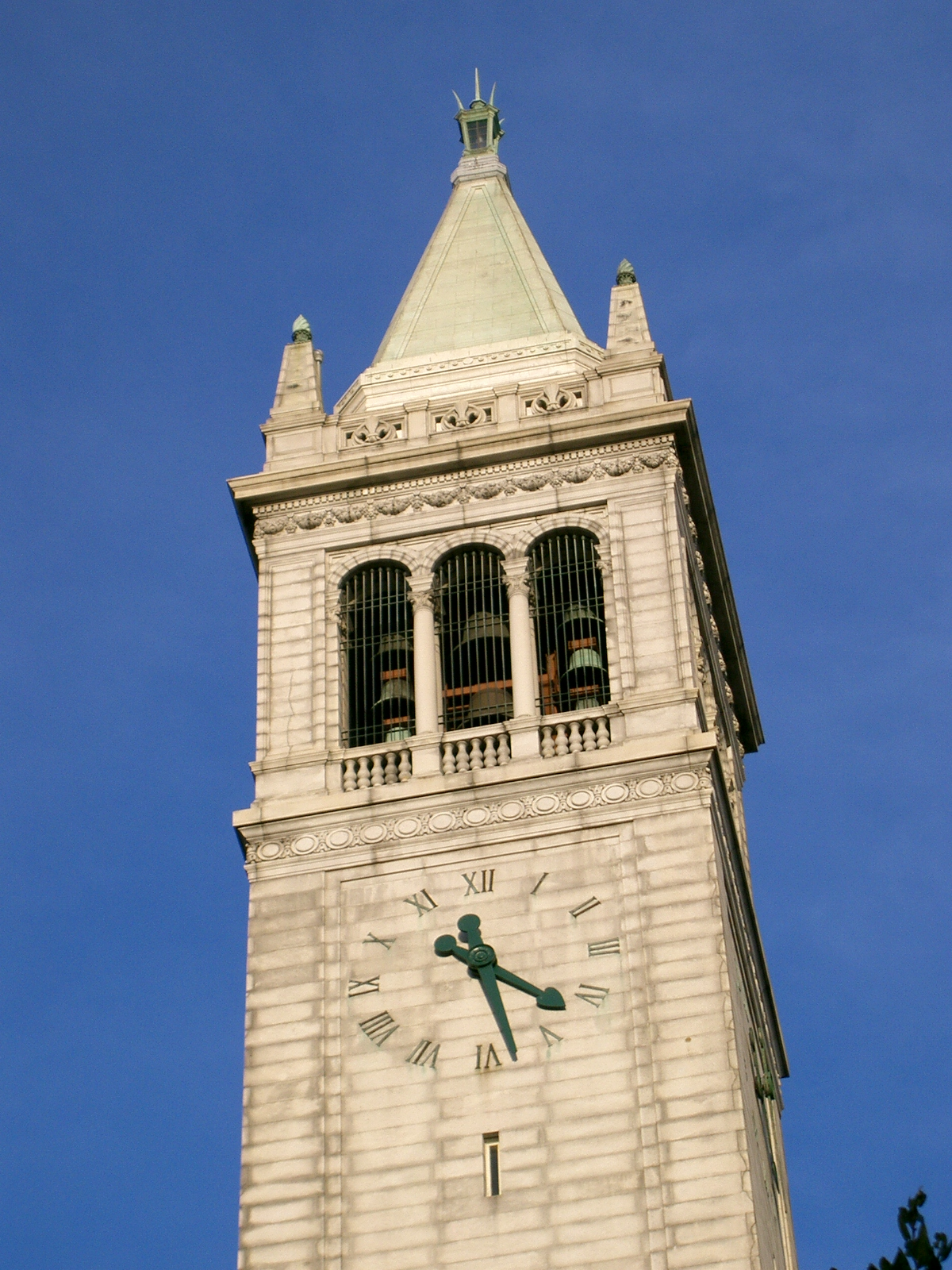 Closeup of top of the Sather Tower on the campus of UC Berkeley, showing the bell/observation chamber and suicide bars. Taken by uploader User:Znode in November 2005.